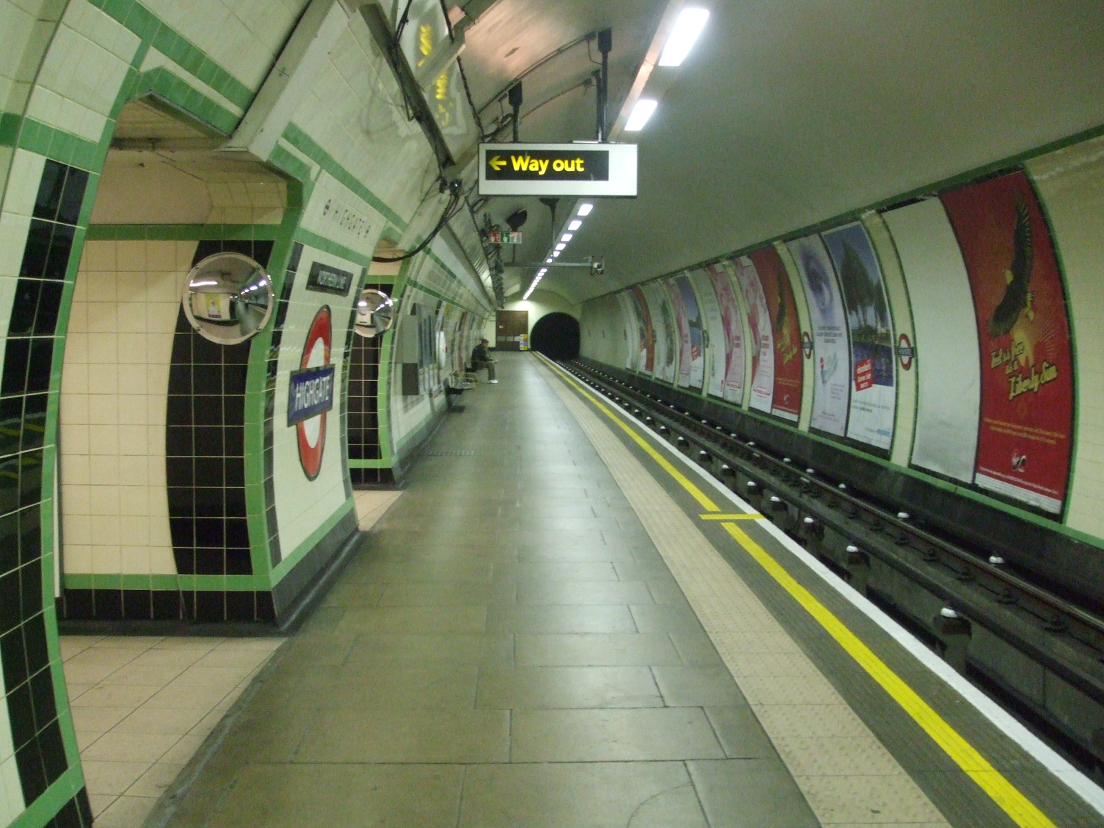 Highgate tube station southbound platform looking north